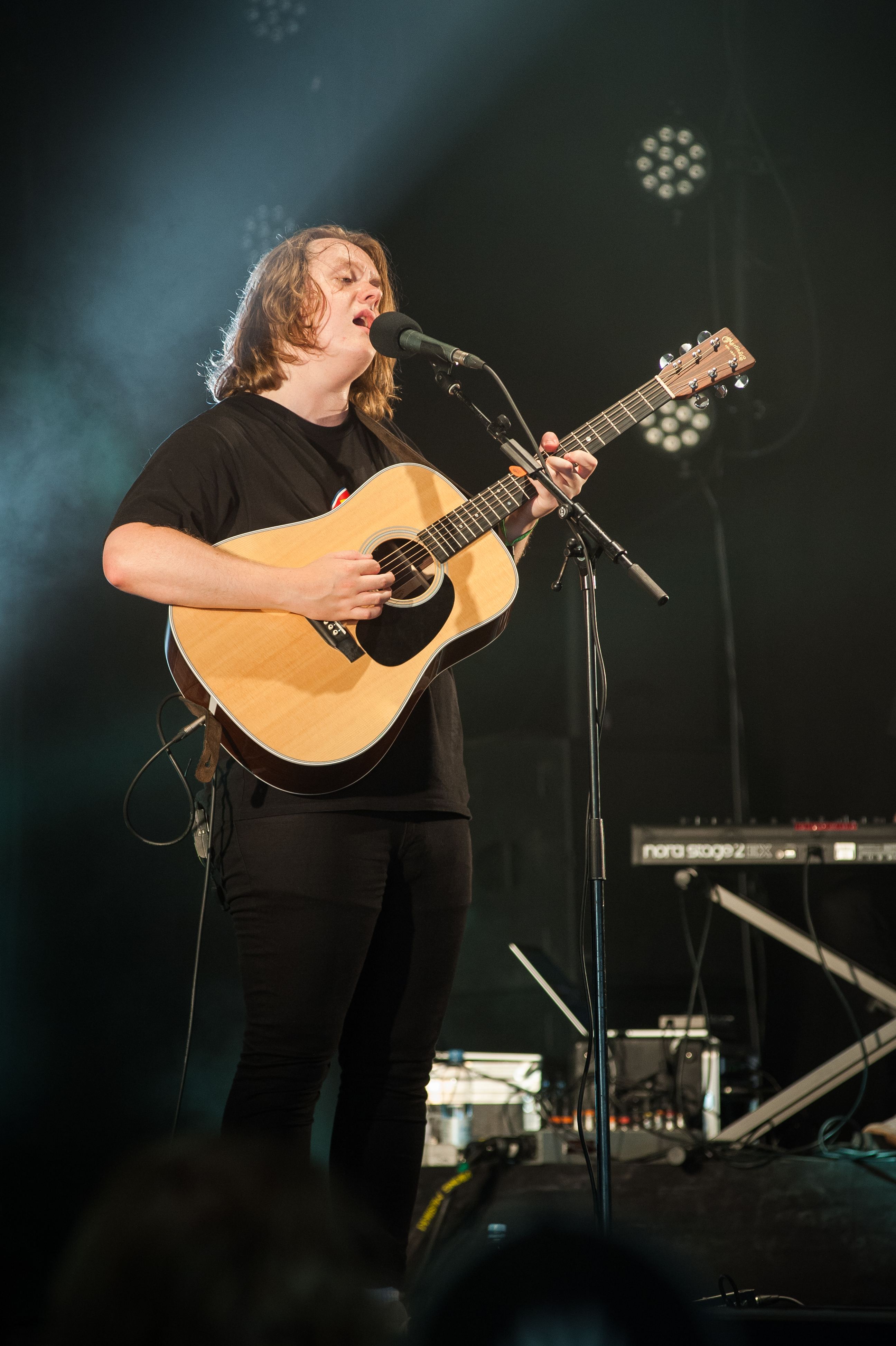 Scottish singer-songwriter Lewis Capaldi performing at the 2018 Ilosaarirock festival in Joensuu, Finland.